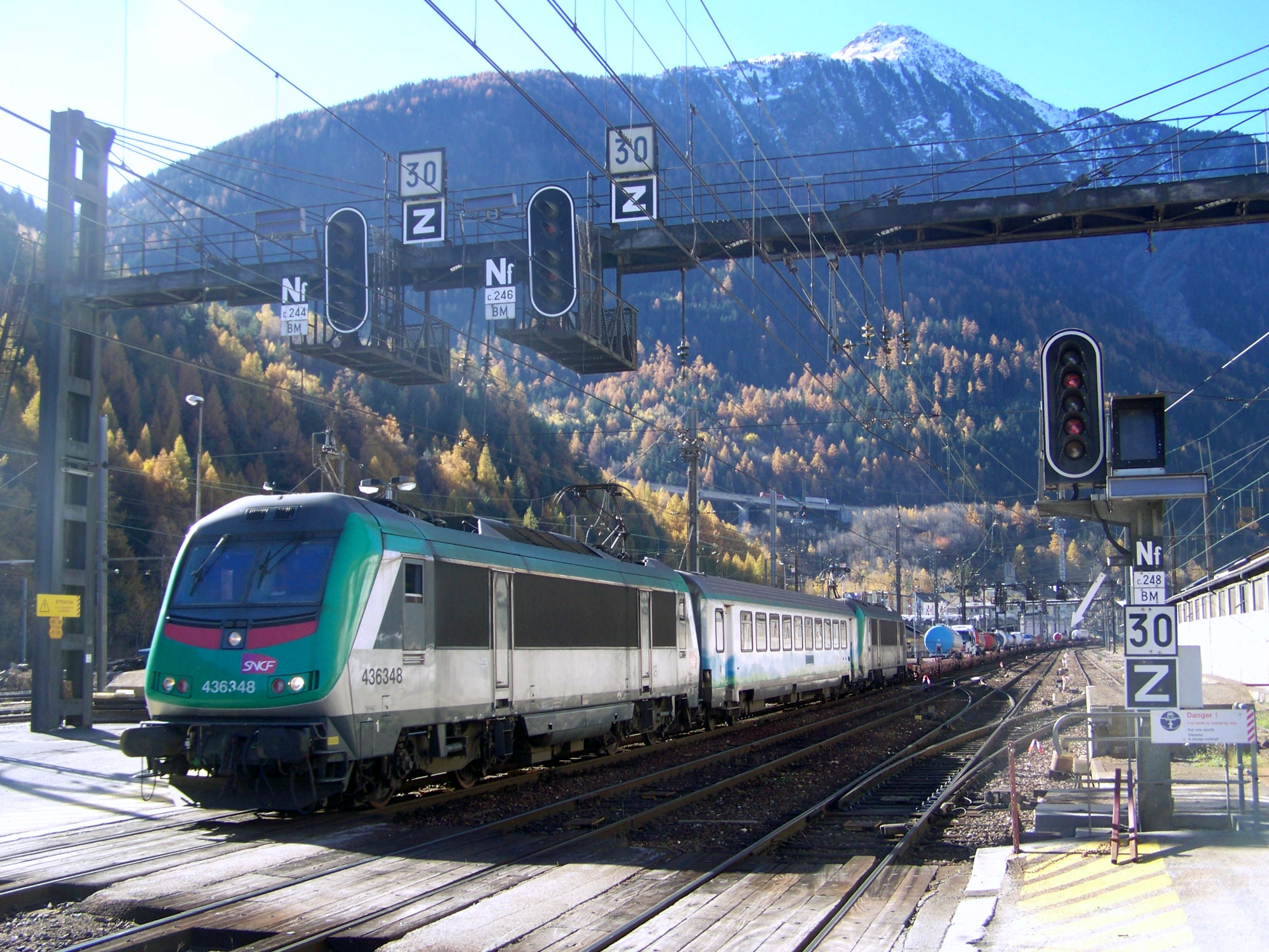 Intermodal freight transport: trucks on a train arriving at Modane close to the Italian border in Savoie, France.